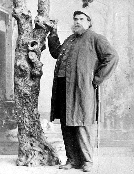 The Middlebush Giant circa 1900 Notes Source: Collection of Franklin Township Public Library, Somerset, New Jersey Note: Used with permission